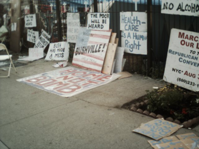 Picture taken outside of the Mobile Bushville, set up in Brooklyn, NYC, on August 30th, 2004, during the Poor People's Economic Human Rights Campaign march to protest at the RNC. I took this picture myself, release all my rights to this image, placing it in the public domain.